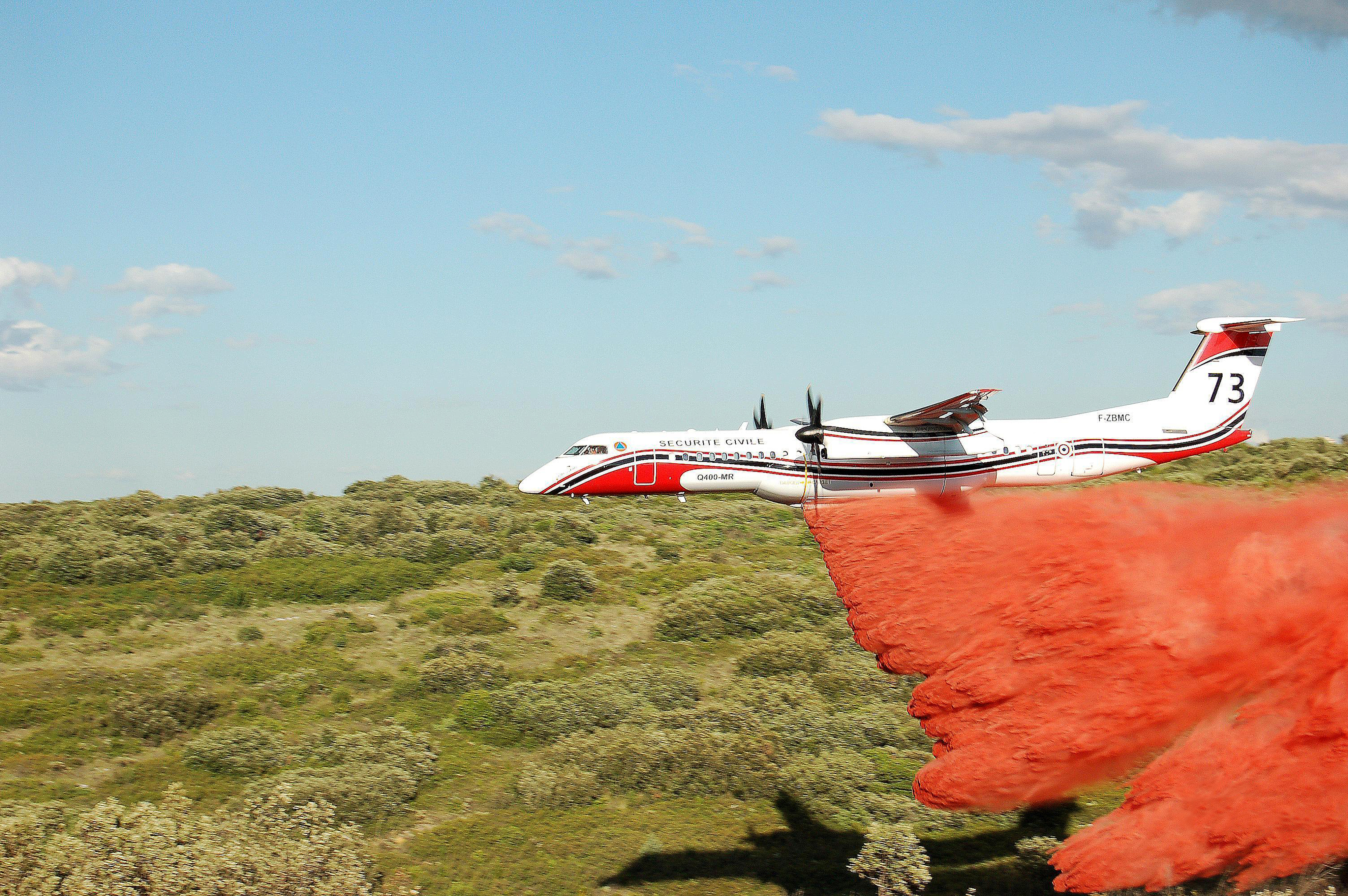 One of the two DHC-8 of the Sécurité Civile used for aerial firefighting, codenamed "Milan 73", drops fire retardant during a wildfire on the Camp des Garrigues, near Nîmes, France, May 2006. Unlike other aircraft built specifically for firefighting, the Dash-8 is limited to 2G vertical loads and requires smoother pull-out maneuvers.